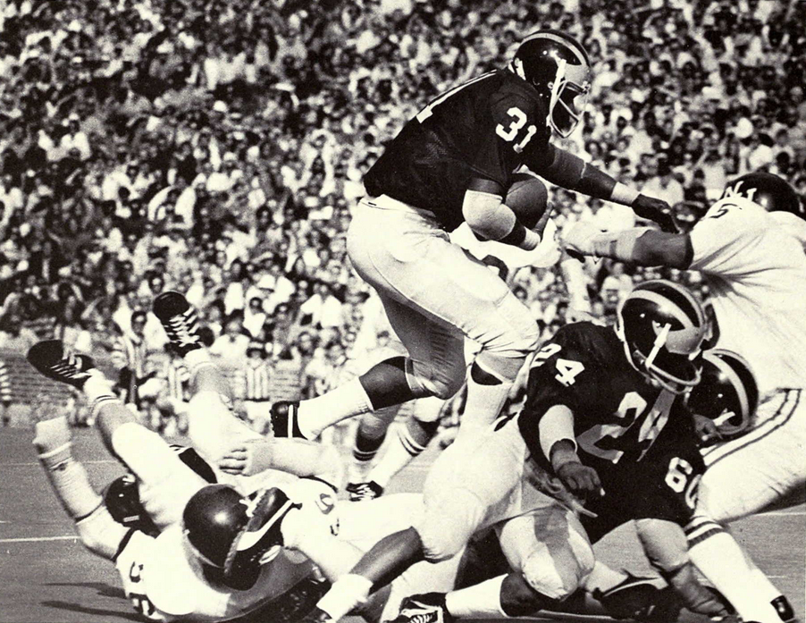 Photograph of Ed Shuttlesworth (No. 31) hurtling the line against Northwestern in 1972